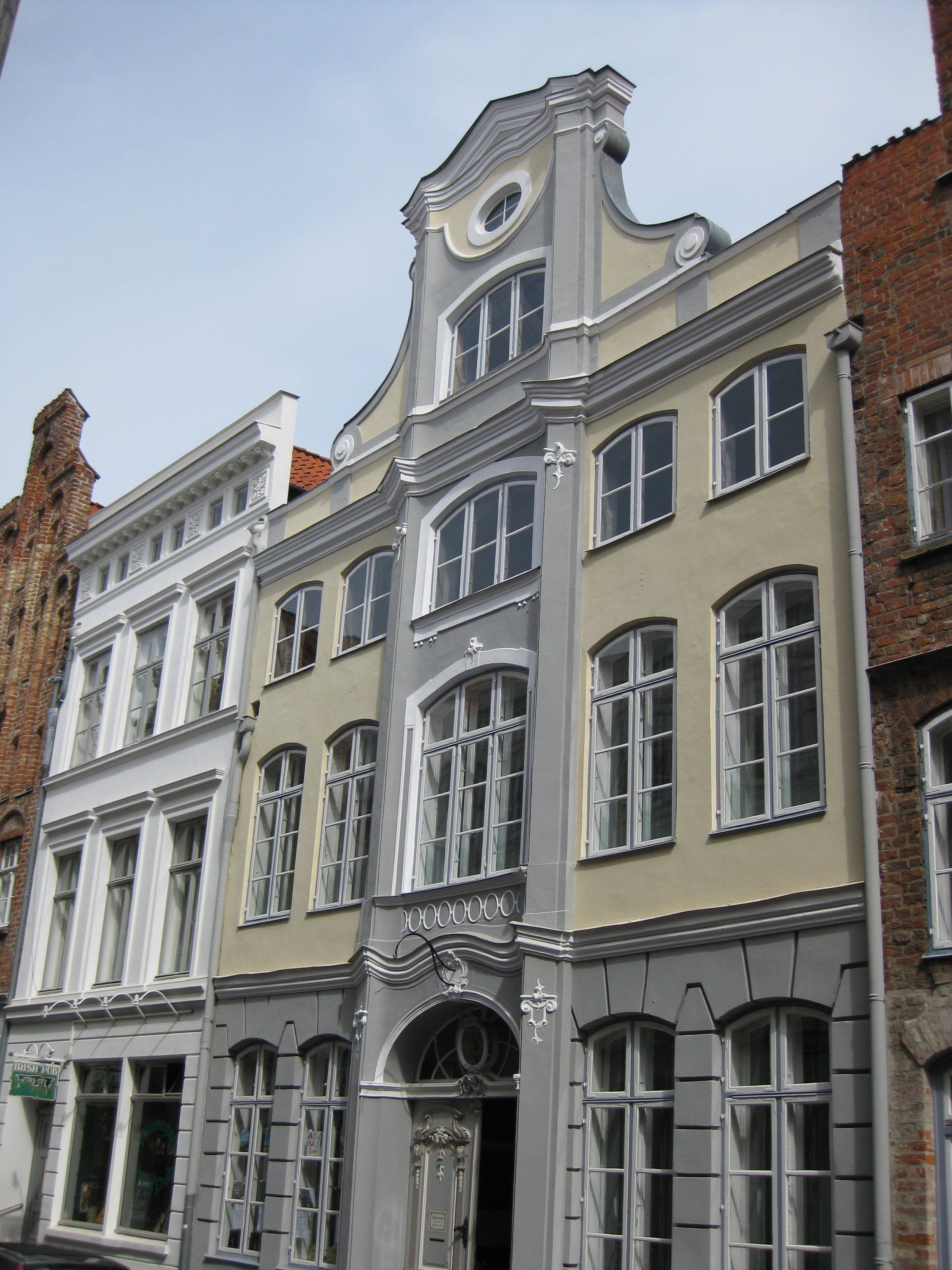 Building Mengstr. 40